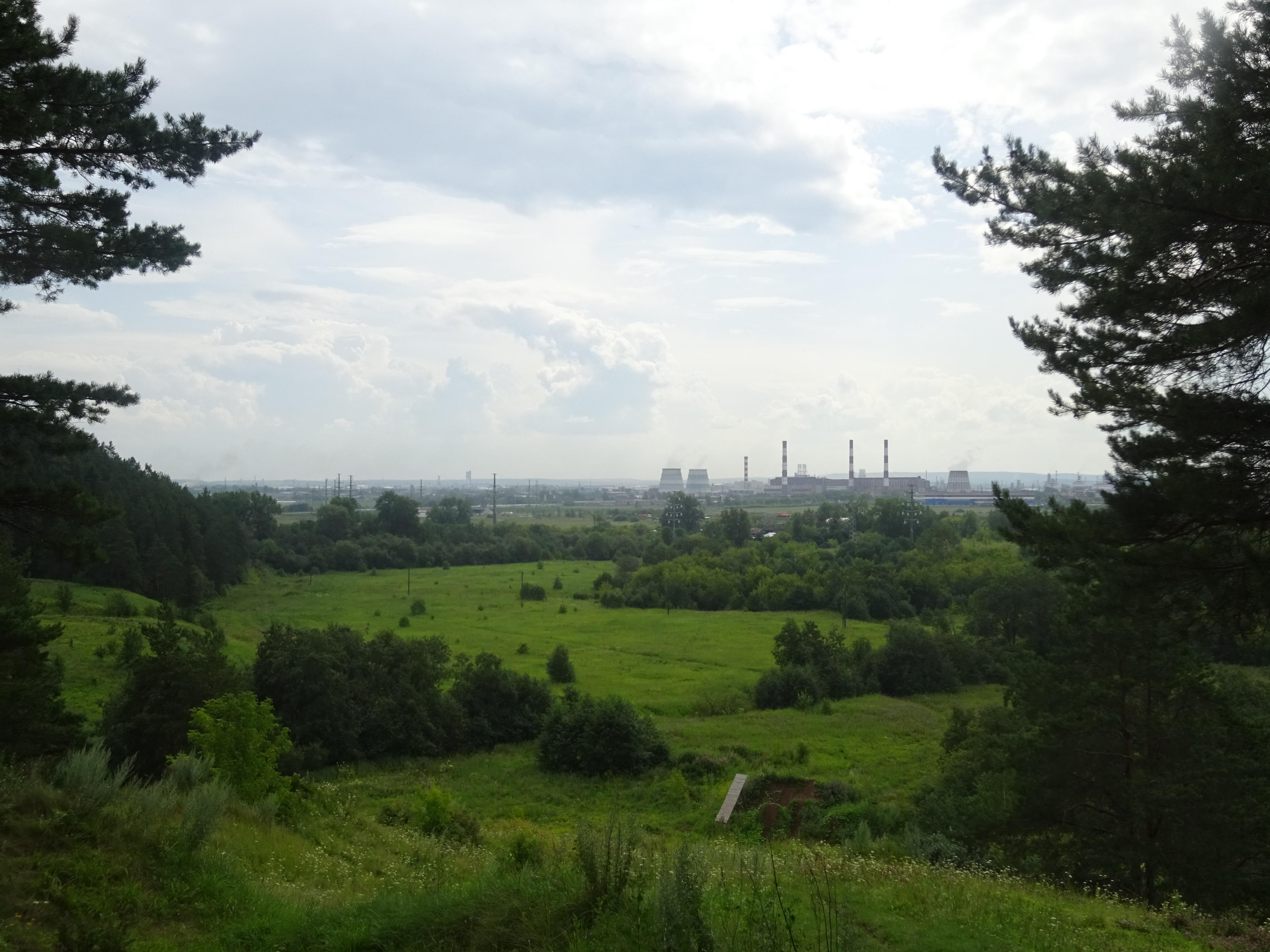 Andronovsky forest in Perm